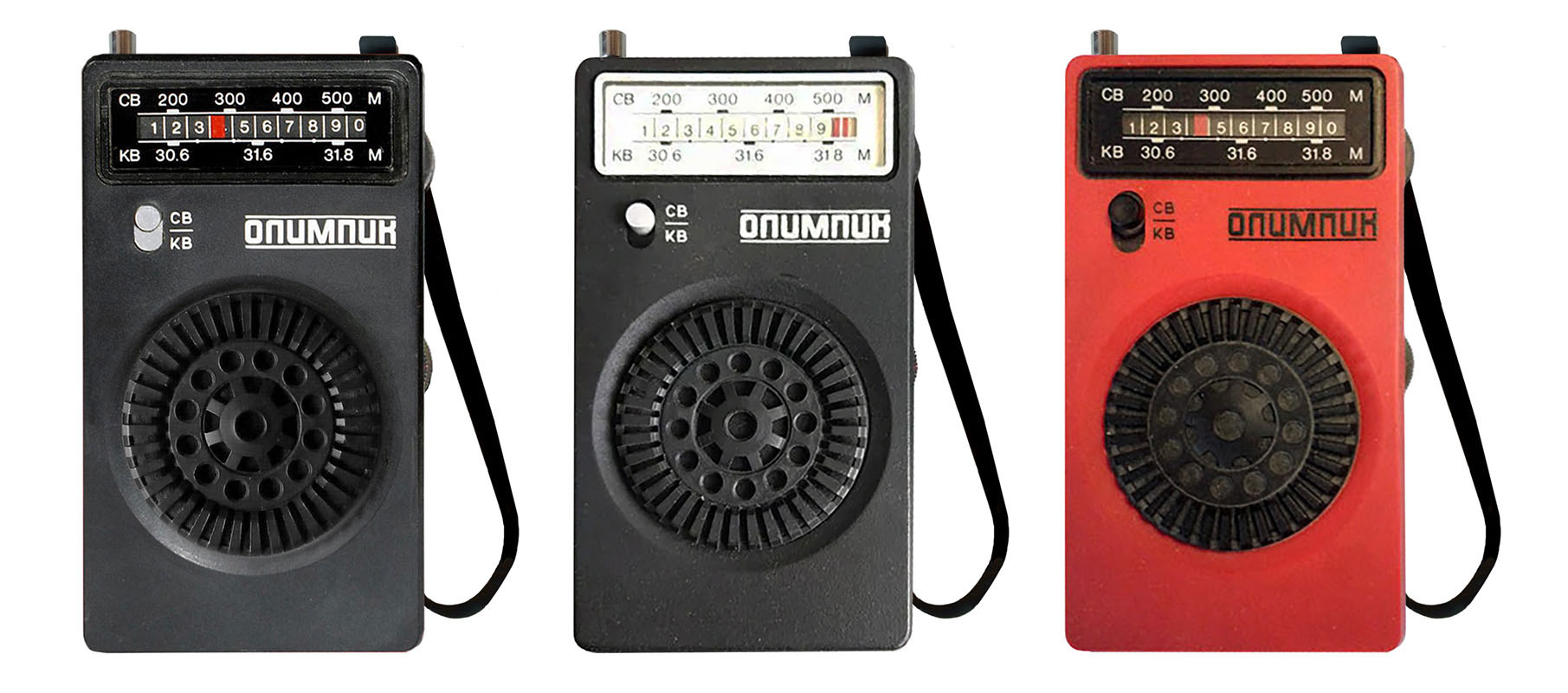 Portable radio Olimpik, by Mykola Lebid (1977)/ Colours